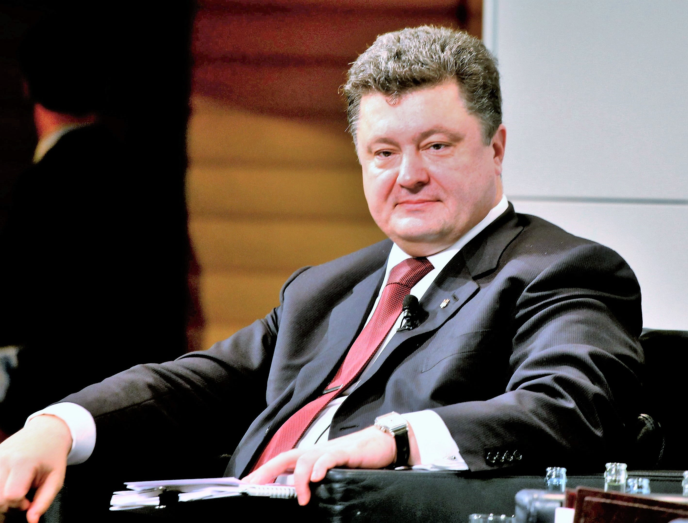 46th Munich Security Conference 2010: Petro Poroshenko, Minister for Foreign Affairs, Ukraine.